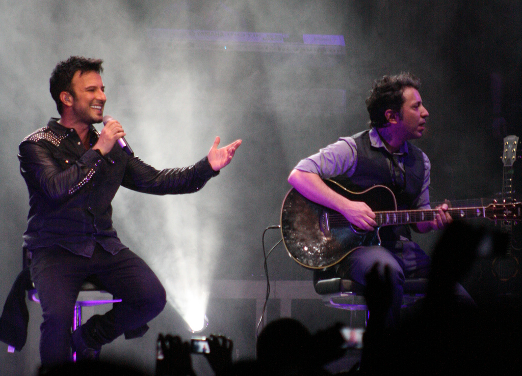 Turkish singer Tarkan.